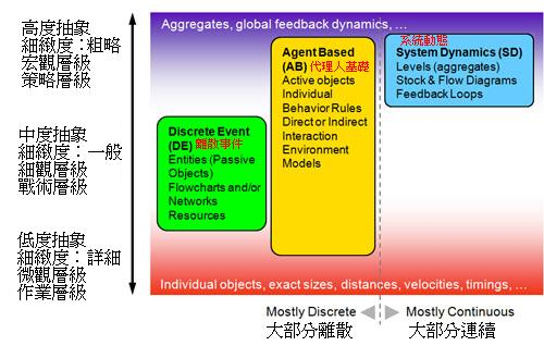 Simulation_approaches_vs_abstraction_levels_CN.jpg